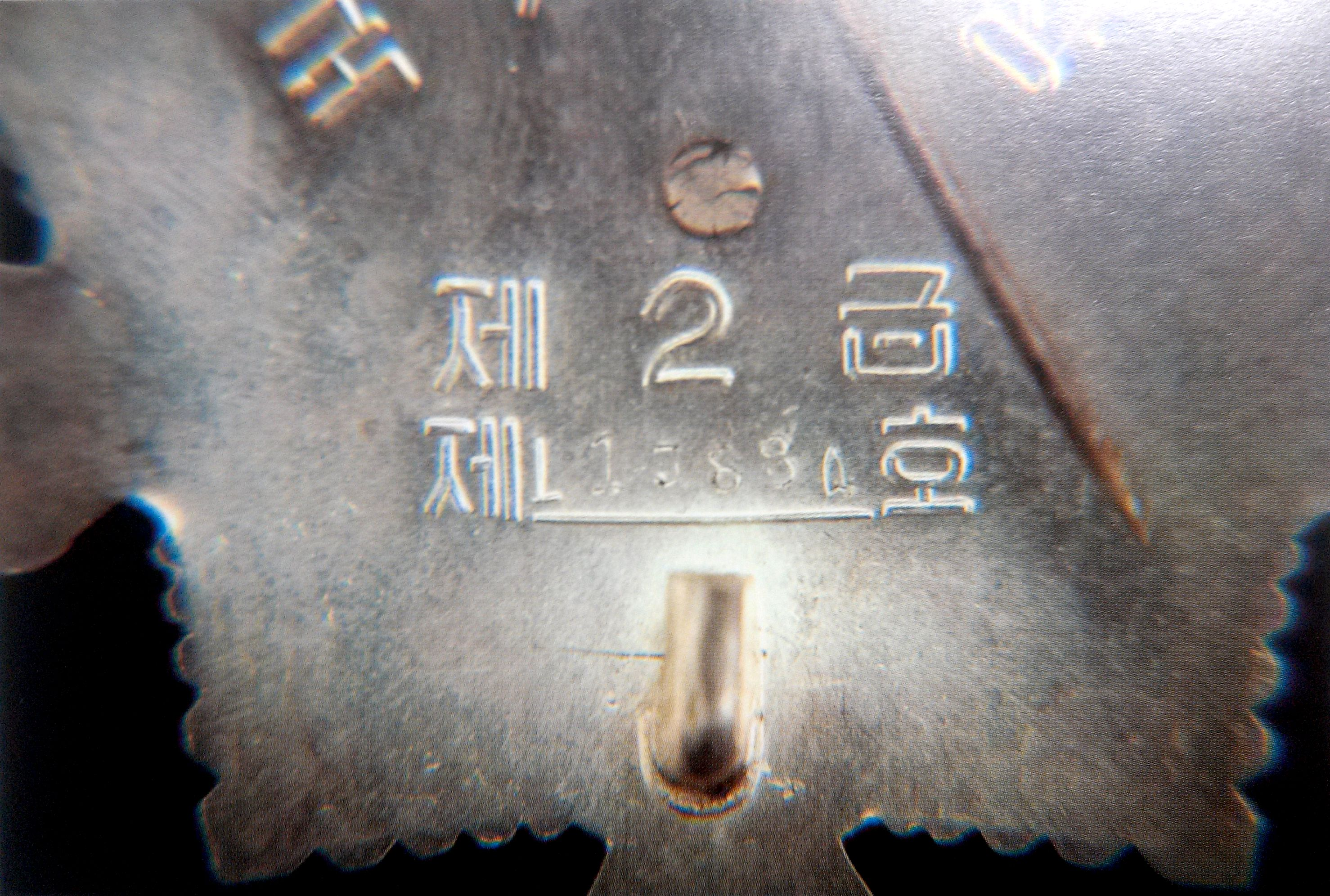 order of the national flag 2nd class